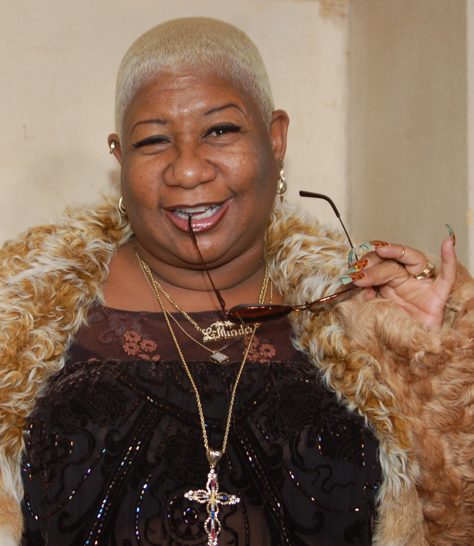 Luenell at a performance of The Hot Chocolate Nutcracker in December 2010.